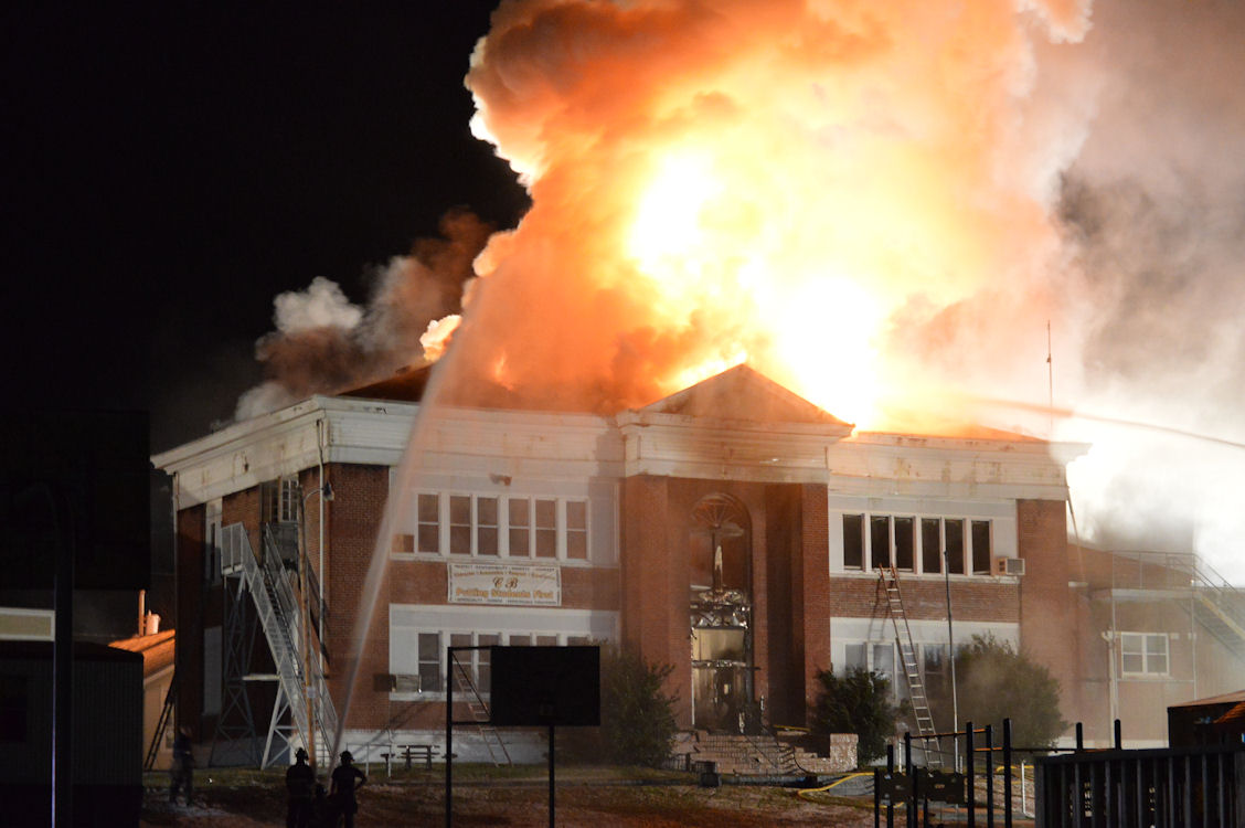 Fire at the Old Colonial Beach High School